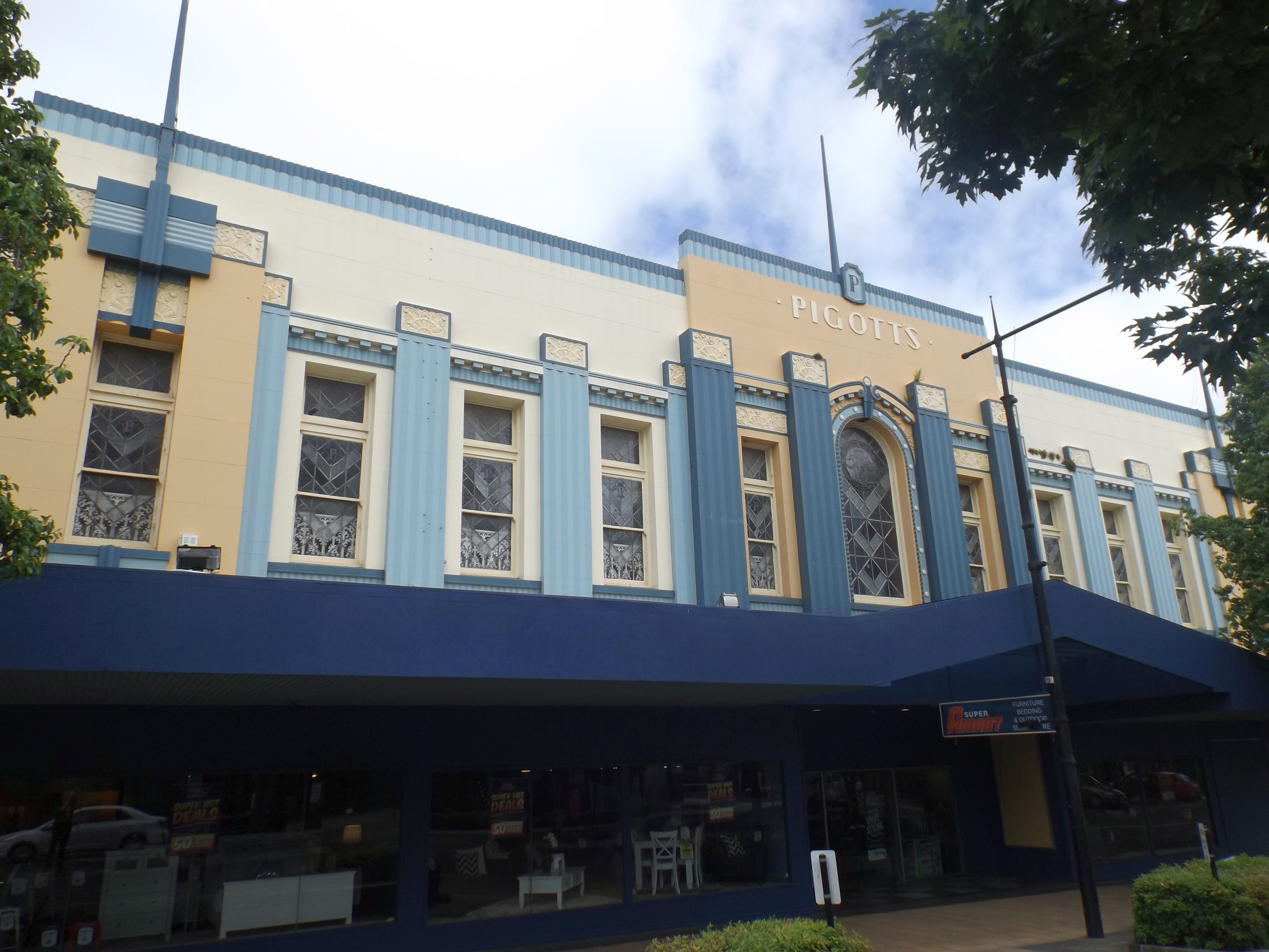 Photo of Pigott's Building facade in Toowoomba City, Queensland, Australia..